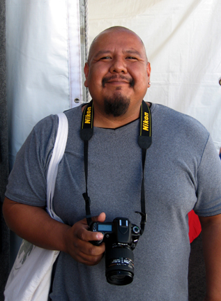 Cameron Chino, Quechan-Pima-Mojave artist and educator, California, 2008